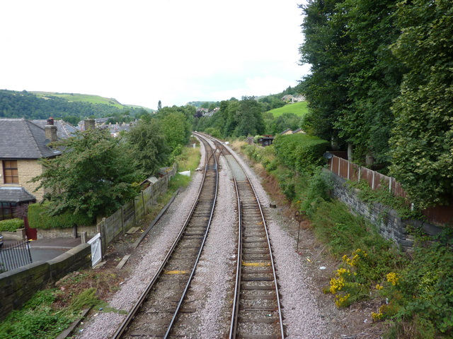 Burnley to Halifax RailwayLooking west towards Burnley. Site of Stansfield Hall station (1869-1949).